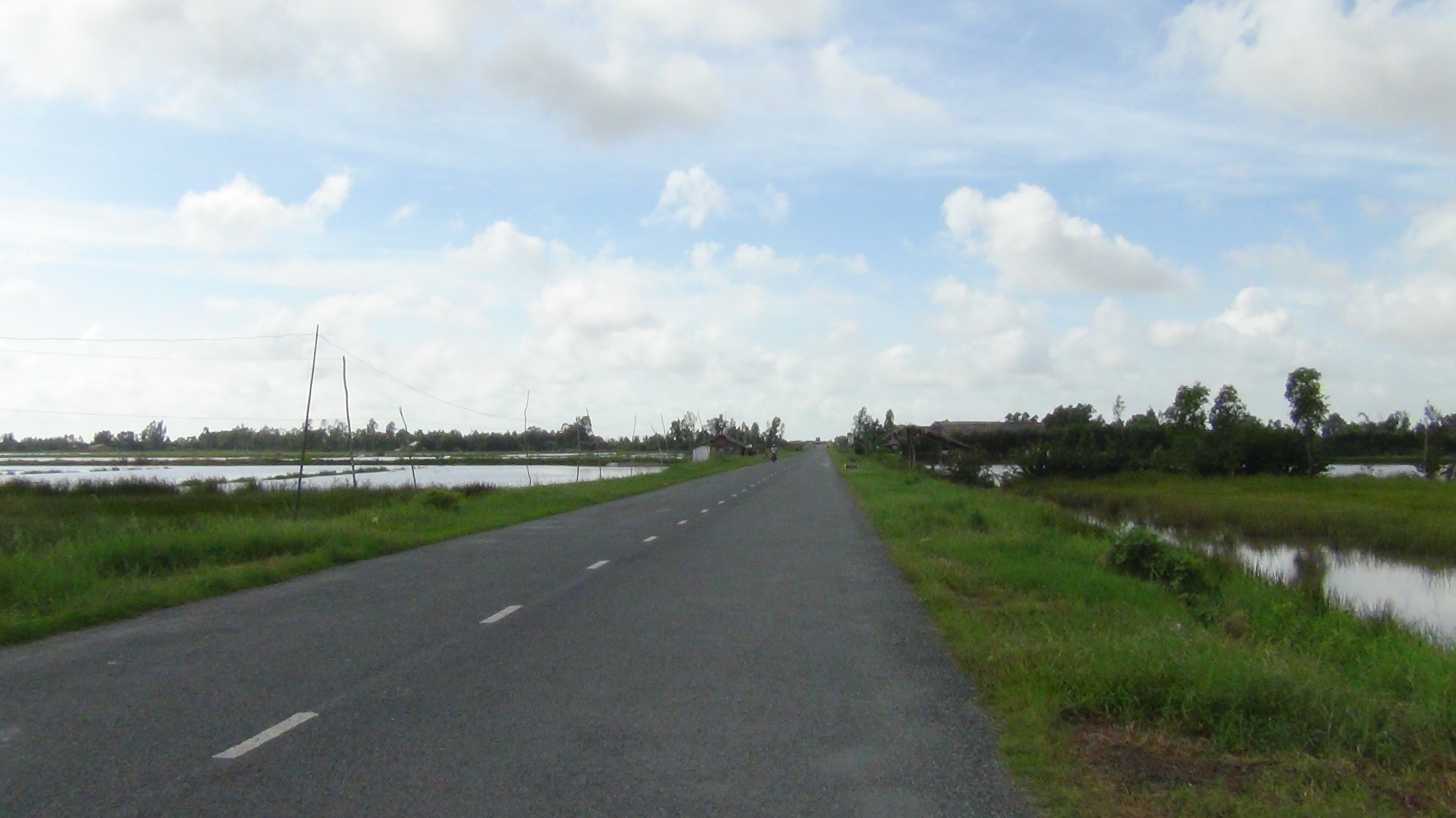 Express Way at Phung Hiep to Ca Mau